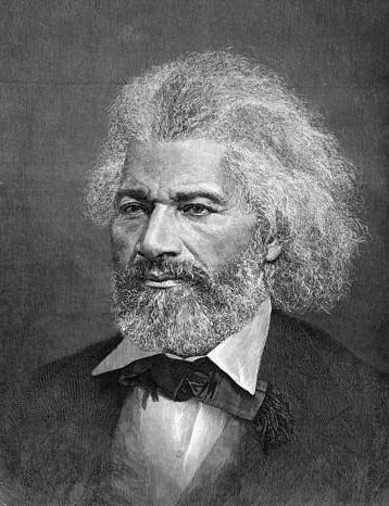 Portrait of Frederick Douglass